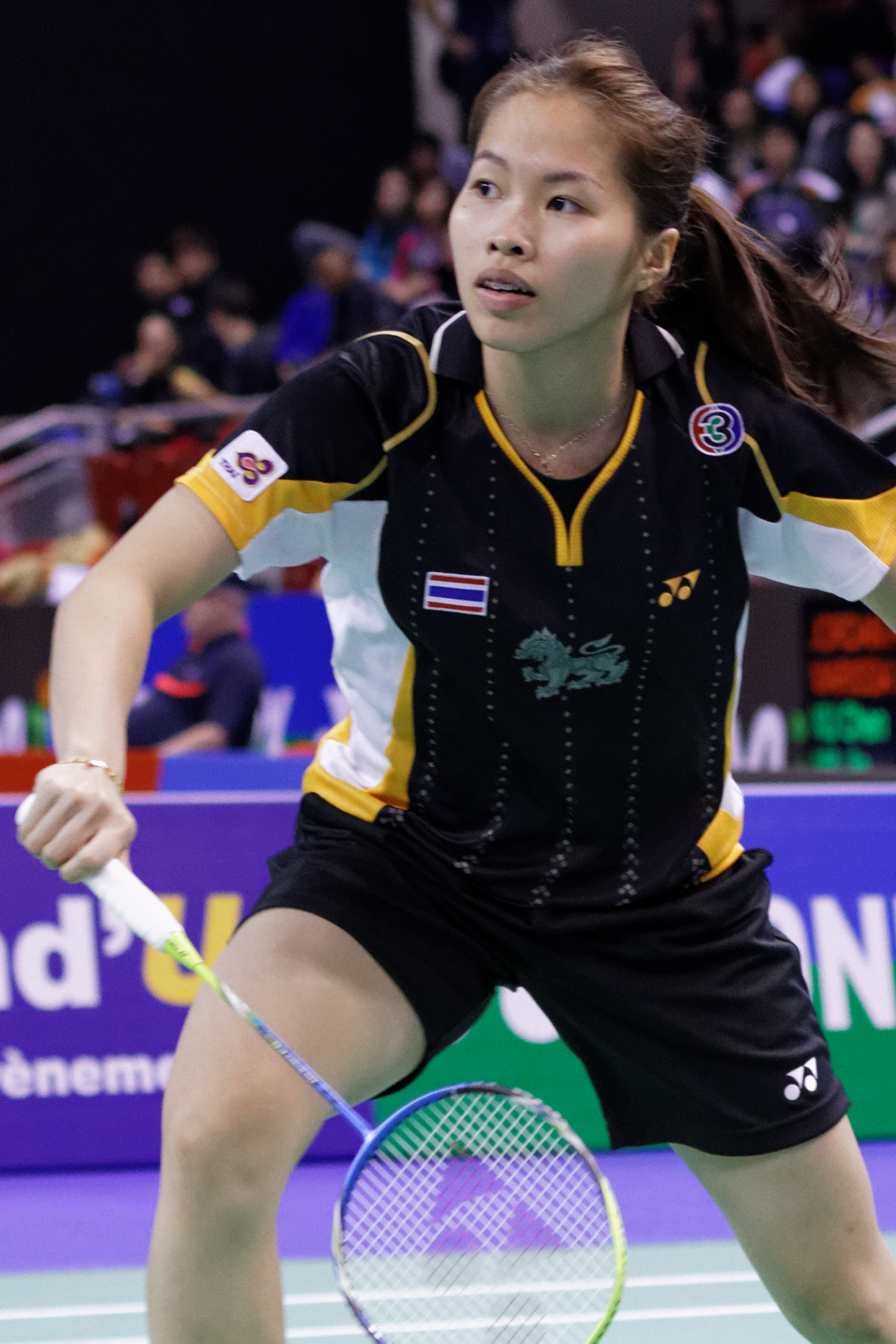 2013 French open. Women's singles quarterfinal. Wang Shixian vs Ratchanok Intanon.